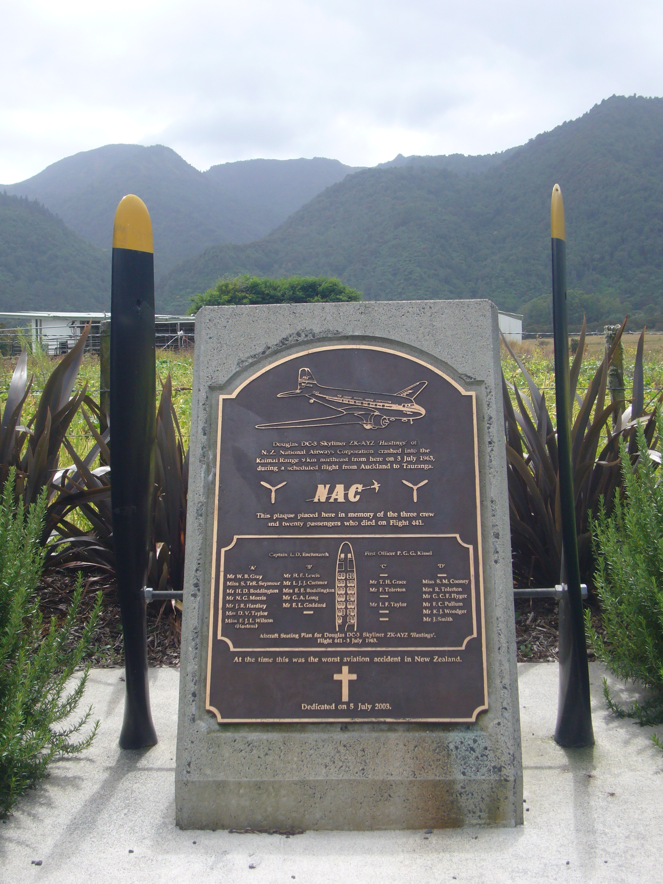 A memorial on the Old Te Aroha Road to those who died in the NAC Flight 441 aviation accident in New Zealand.